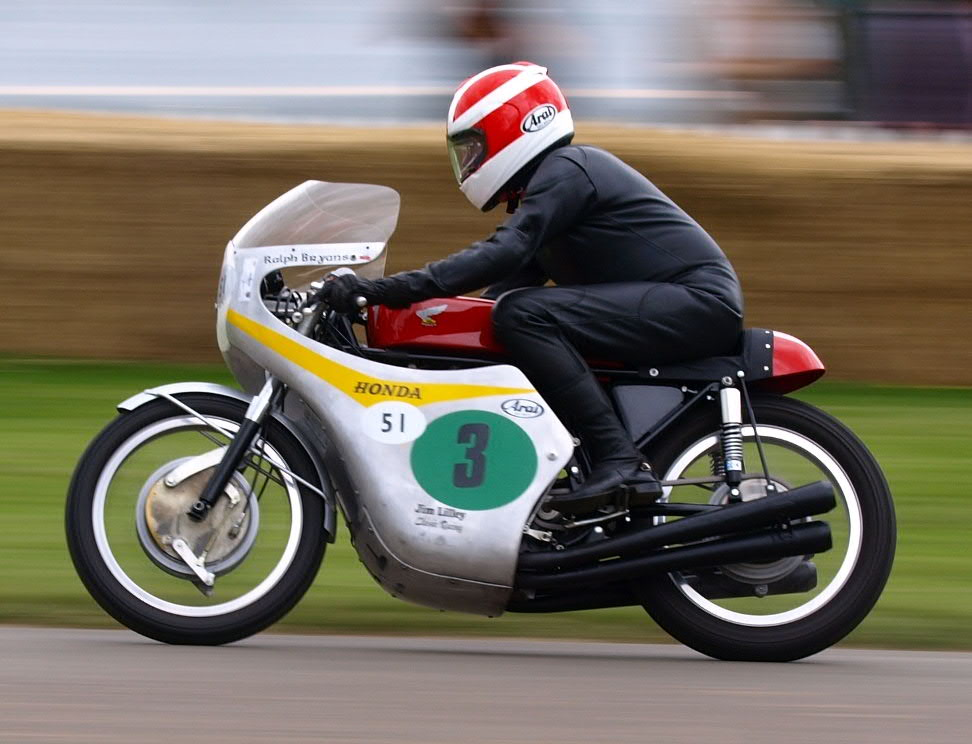 Ralph Bryans demonstrating a Honda RC171 at Goodwood Festival of Speed 2008